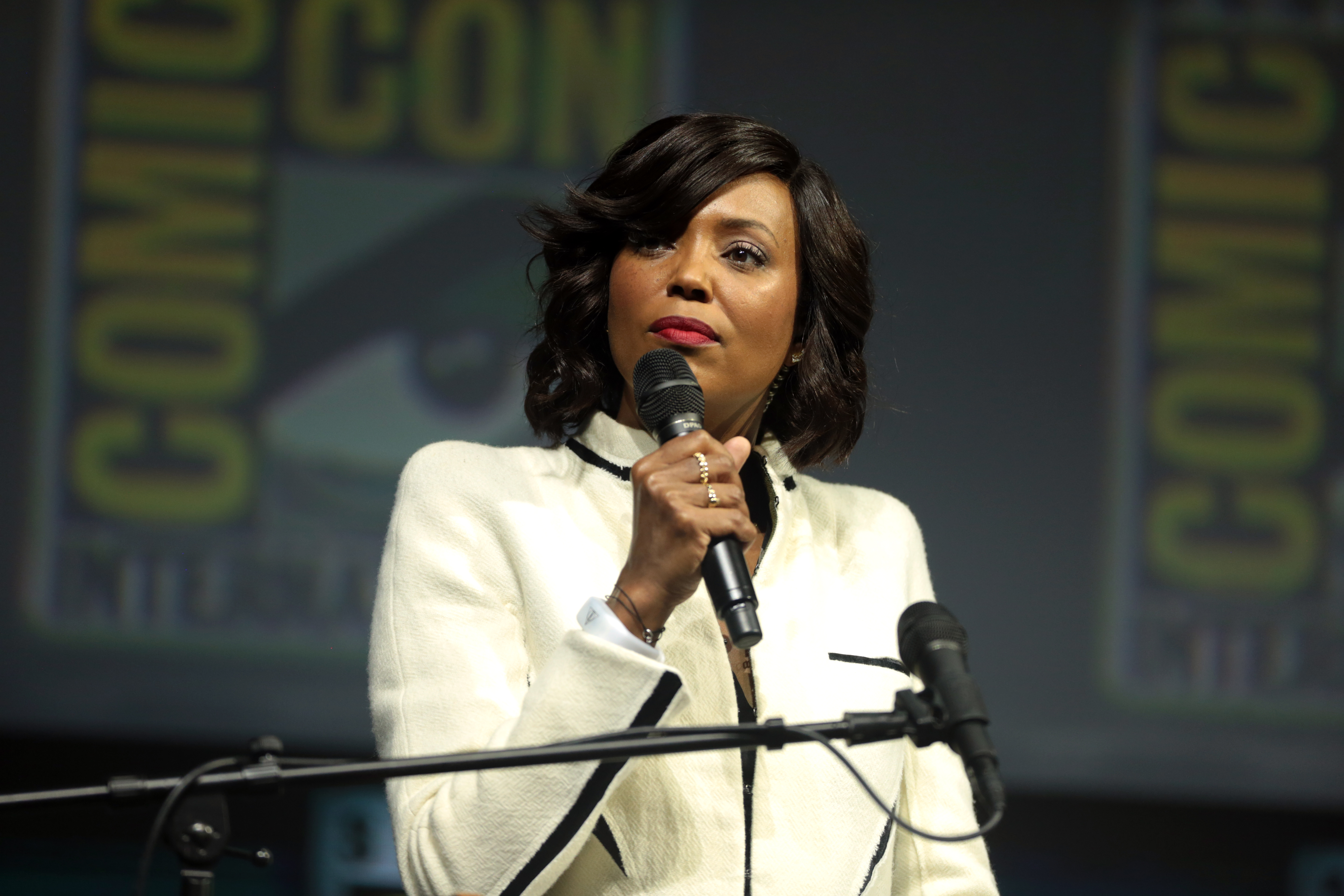 Aisha Tyler speaking at the 2018 San Diego Comic Con International, for "Godzilla: King of the Monsters", at the San Diego Convention Center in San Diego, California.